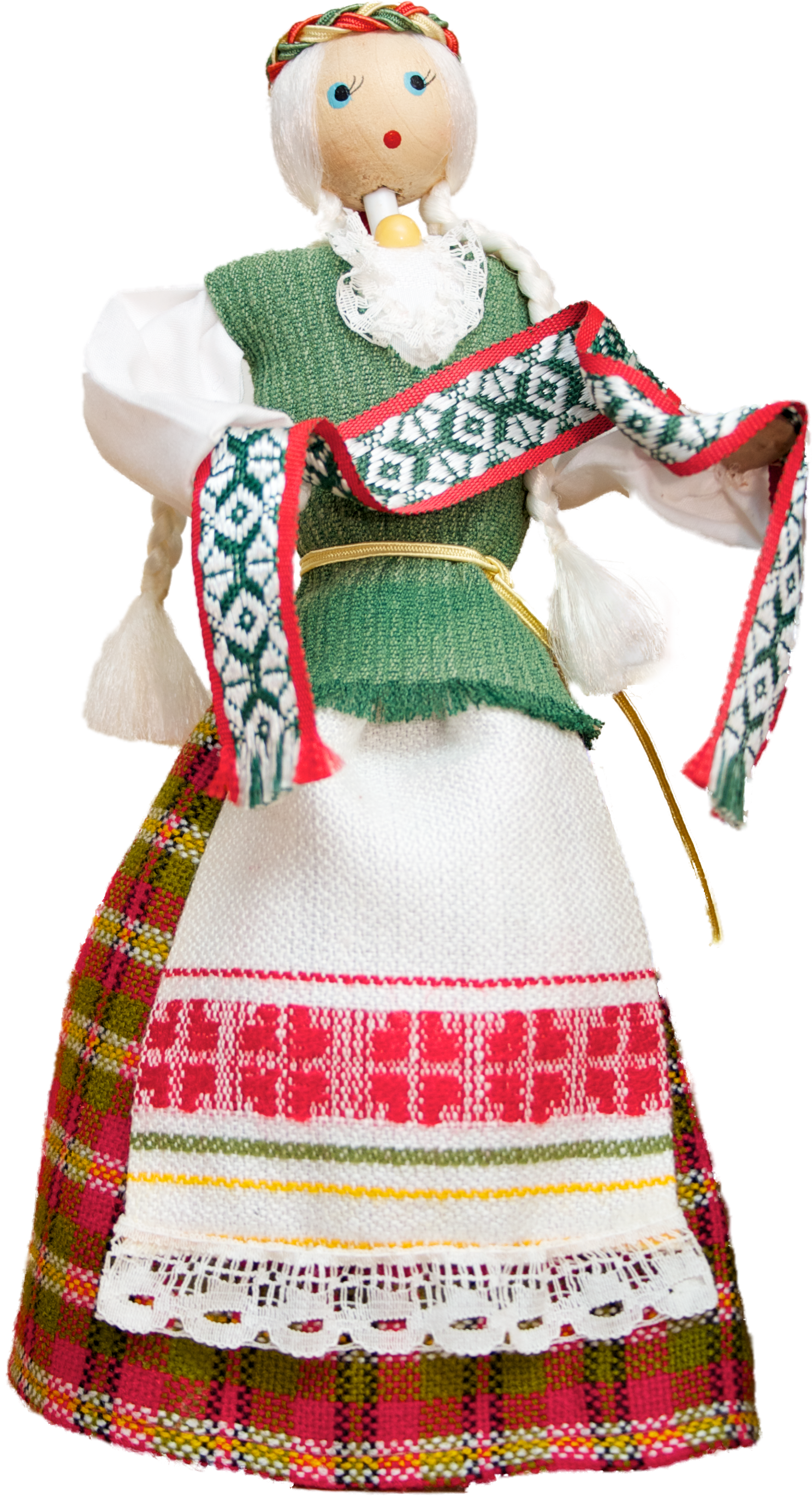 female wooden doll illustrating traditional lithuanian clothing style